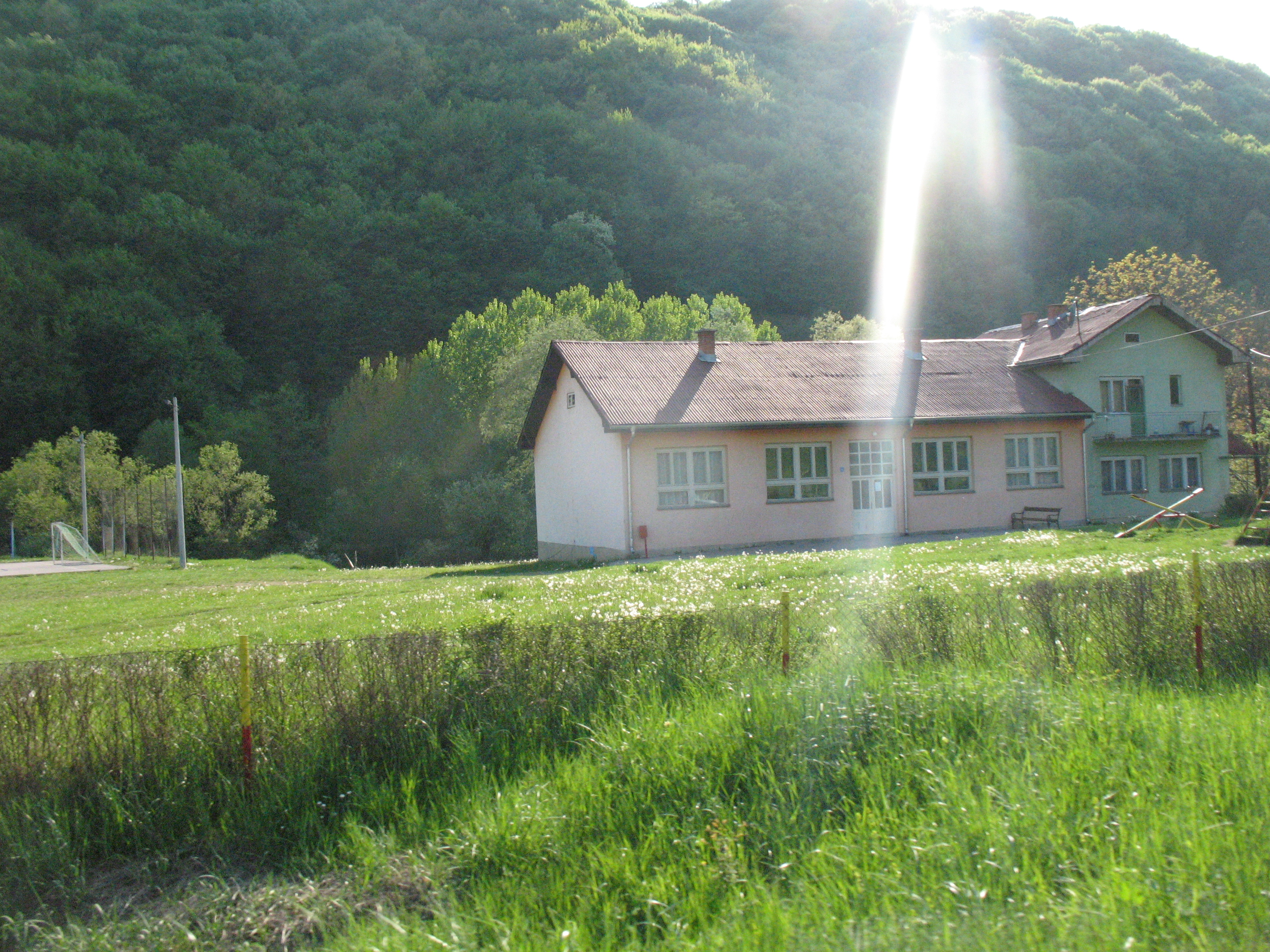 School in Lepenac, near Brus, Serbia.